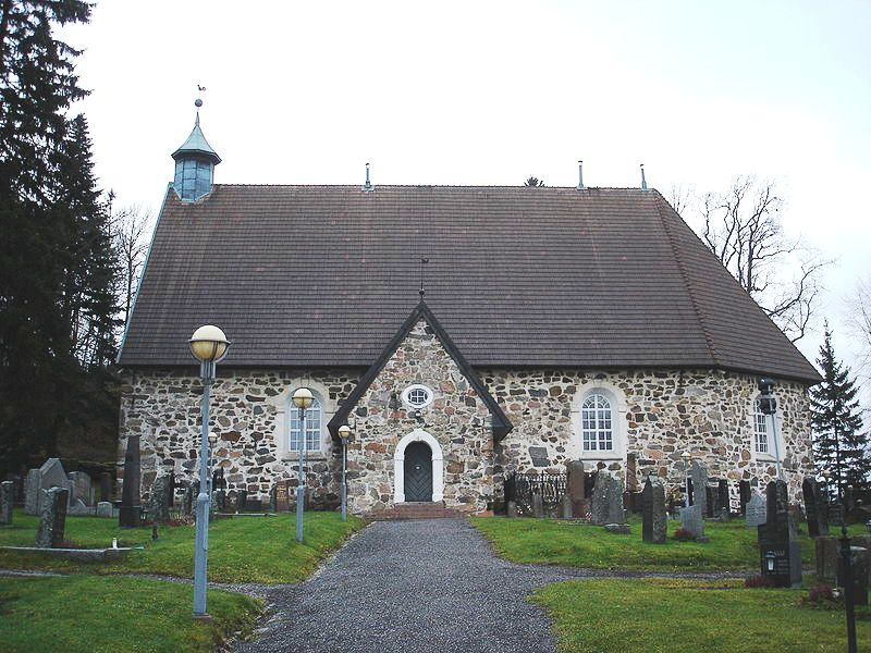 Piikkiö Church, version with more light